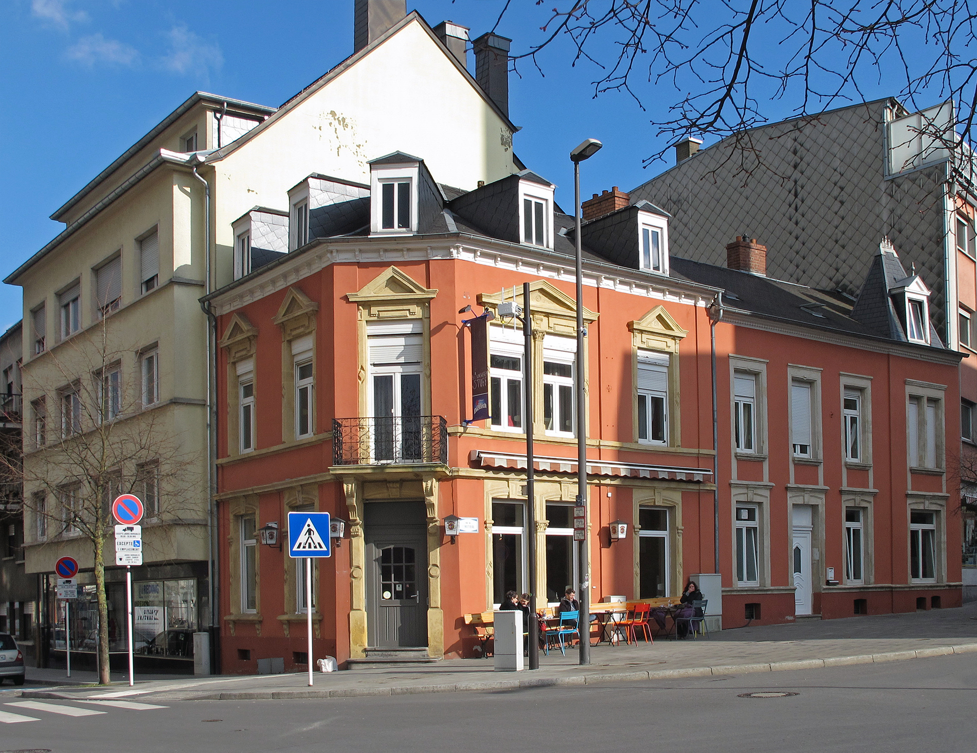 Café Bouneweger Stuff, Bonnevoie, Luxembourg